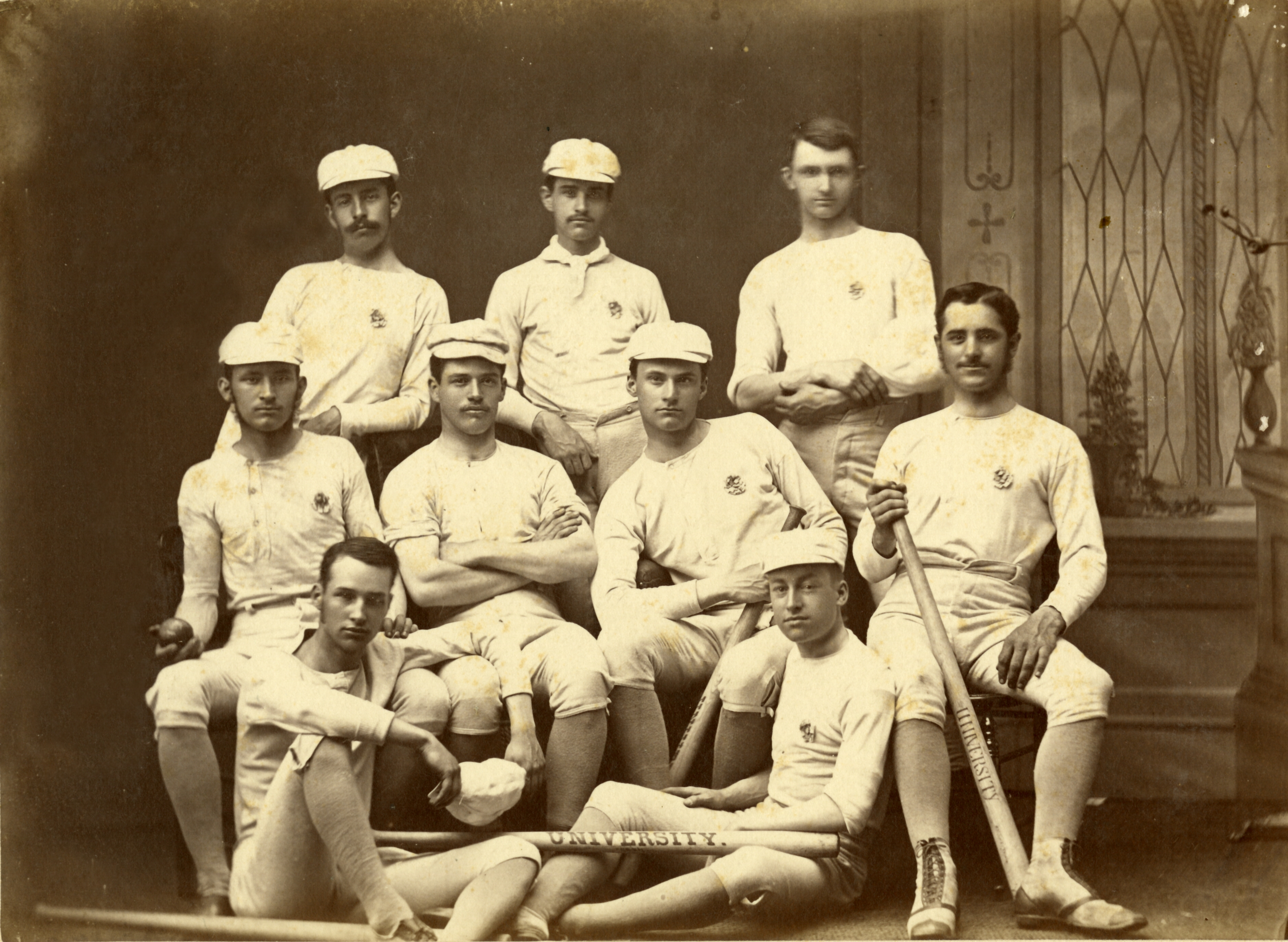 Team portrait of 1875 University of Michigan baseball team. Top Row: Ogden W. Ferdon, Roberts Willis, George H.Winslow Middle Row: George H. Abbott, Edgar Dean Root, Charles Burch, Oscar Pliny Shepardson Front Row: Frederick Kimball Stearns, William Claflin Johnson